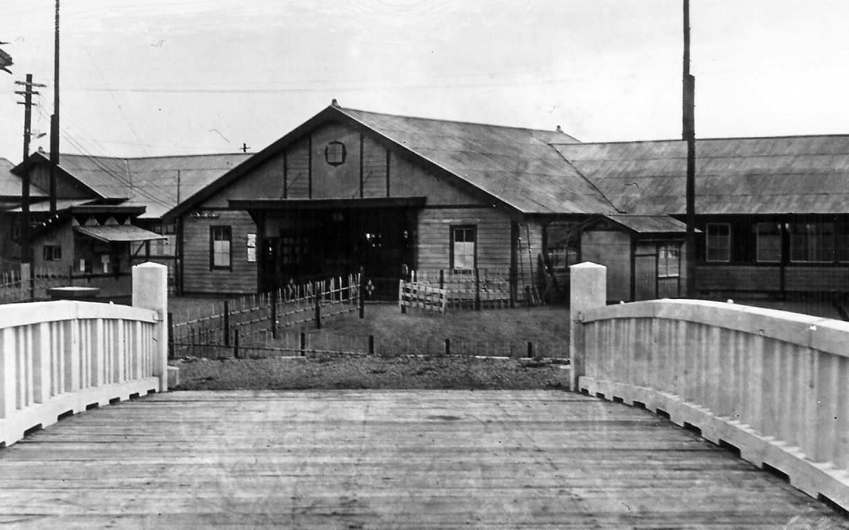 Japanese postcard showing a bridge over the Hikiji River in Fujisawa City, Kanagawa Prefecture